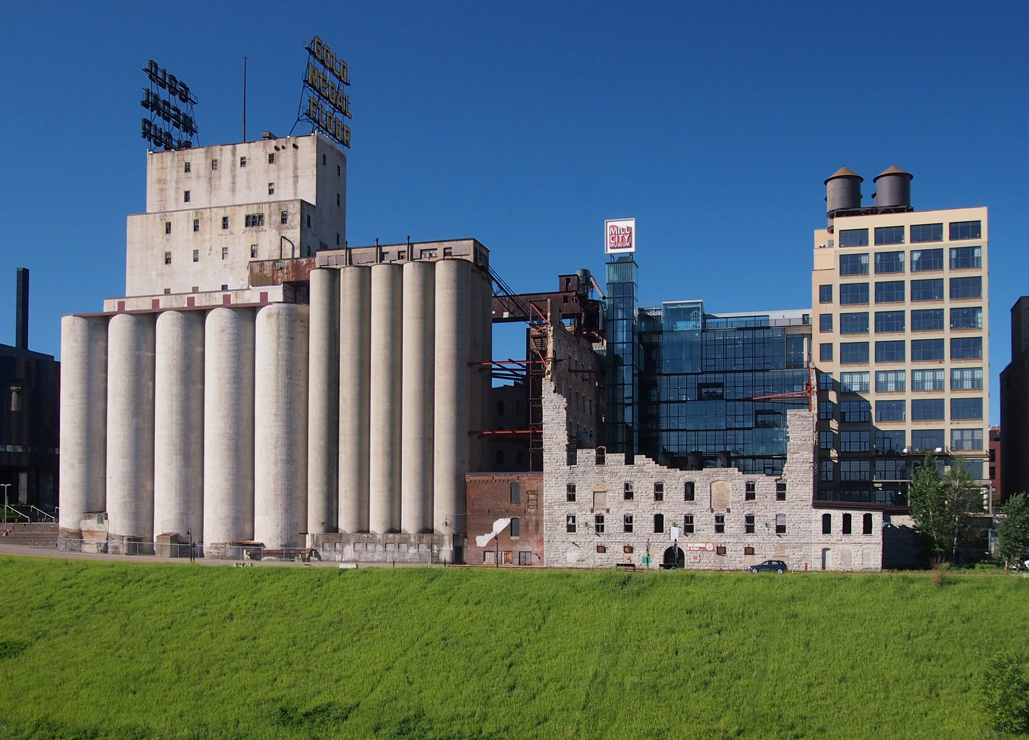 Washburn "A" Mill complex viewed from the north from the Stone Arch Bridge, Minneapolis, Minnesota, USA.